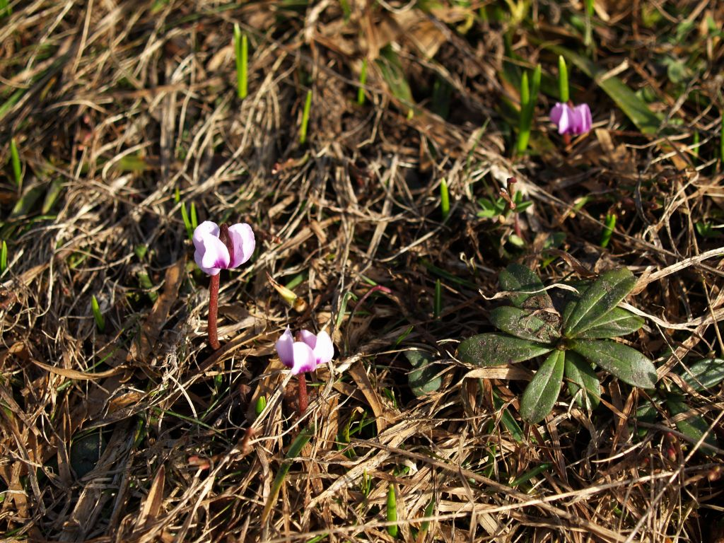 Flowers of Cyclamen parviflorum, leaves of Daphne glomerata (on right).